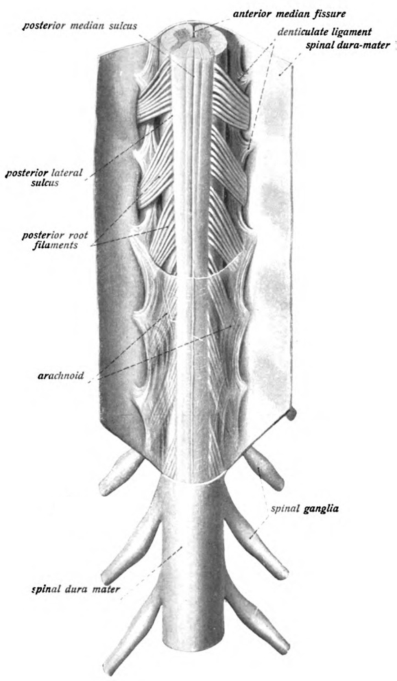 An anatomical illustration from the 1908 edition of Sobotta's Anatomy Atlas